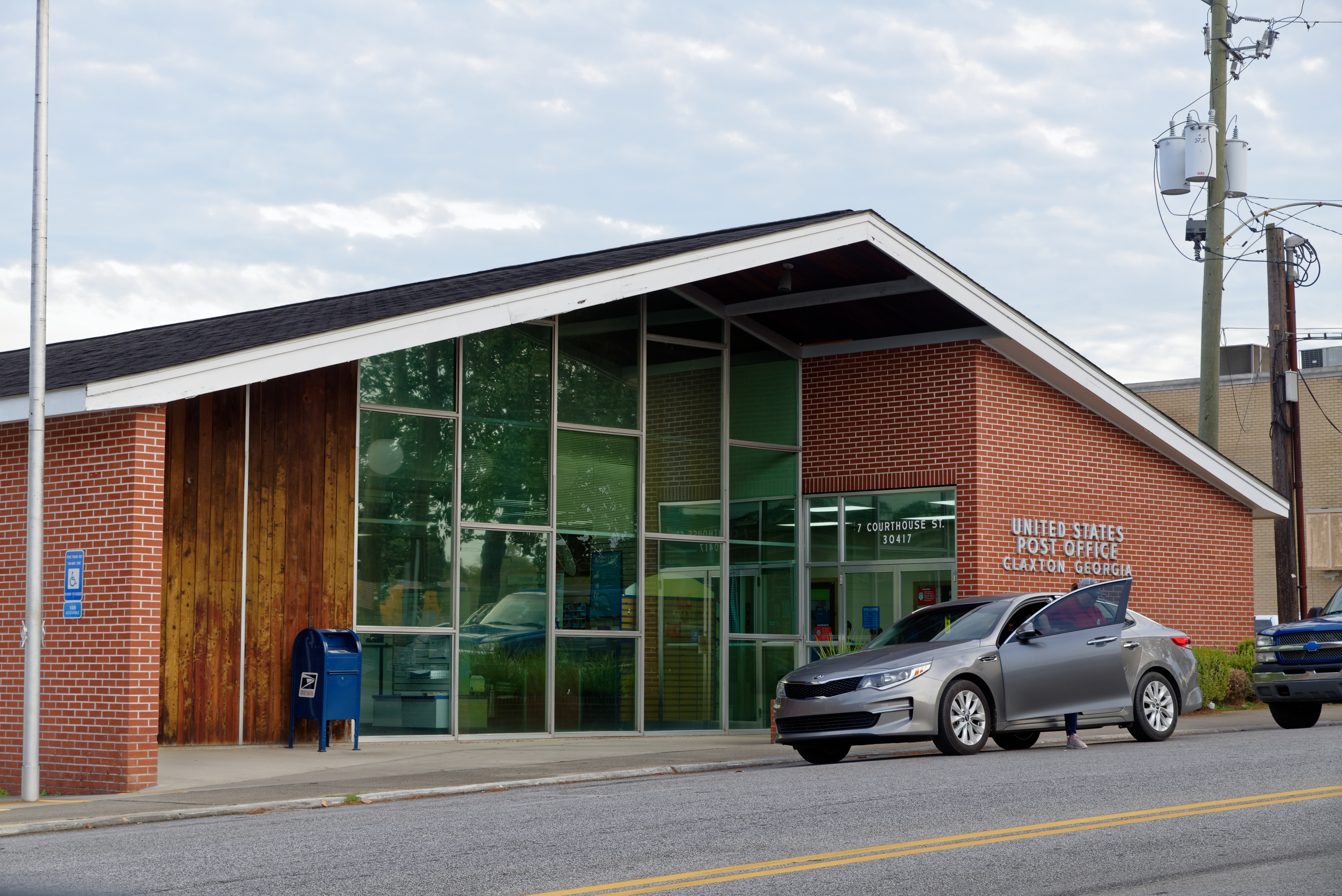 Post Office in Claxton, Geogia, U.S.